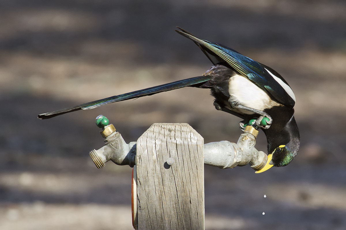 Yellow-billed Magpie (Pica nuttalli). Lake San Antonio, United States.